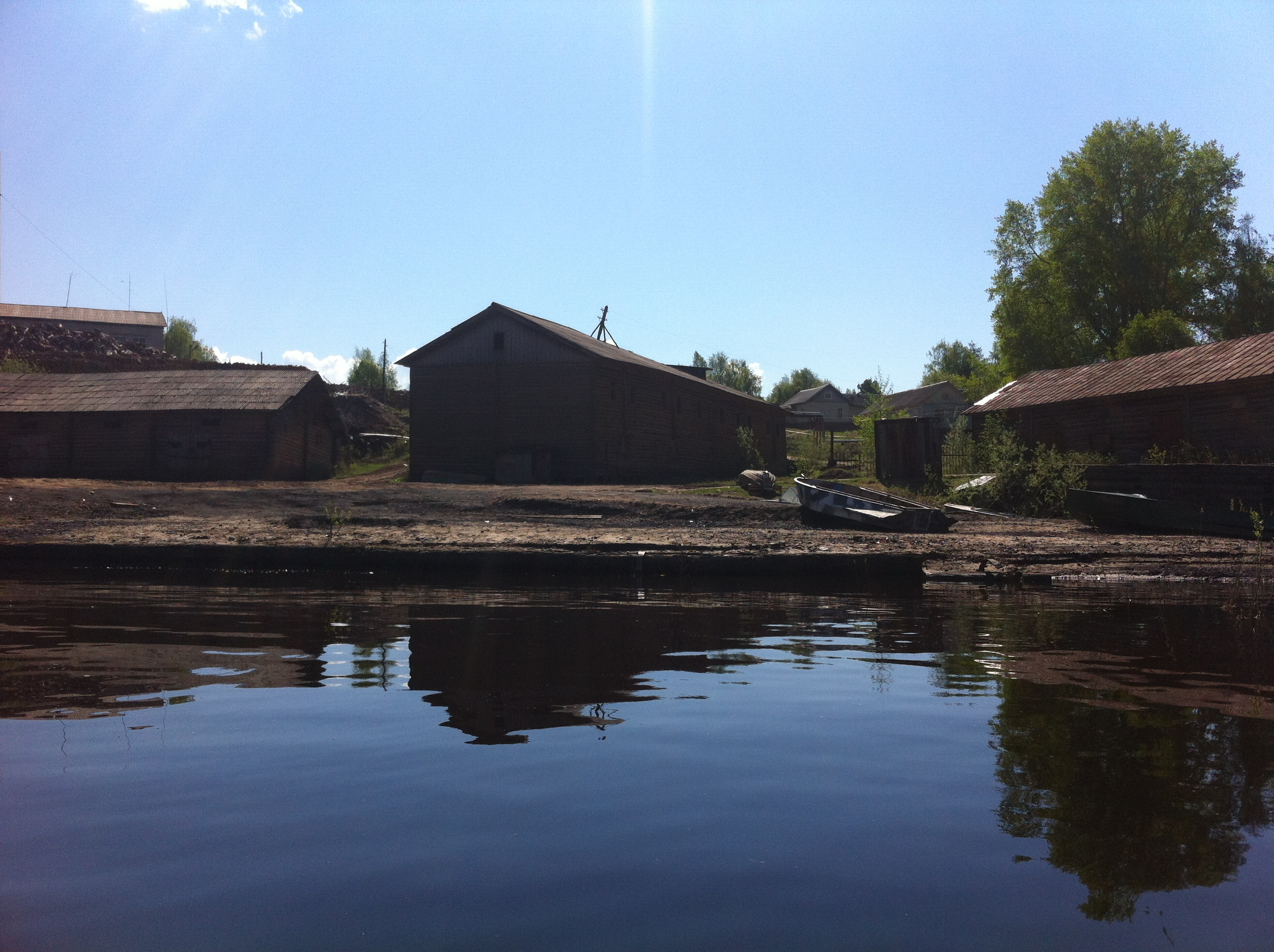 Russia, Arkhangelsk region, Leshukonskoe village, 164670